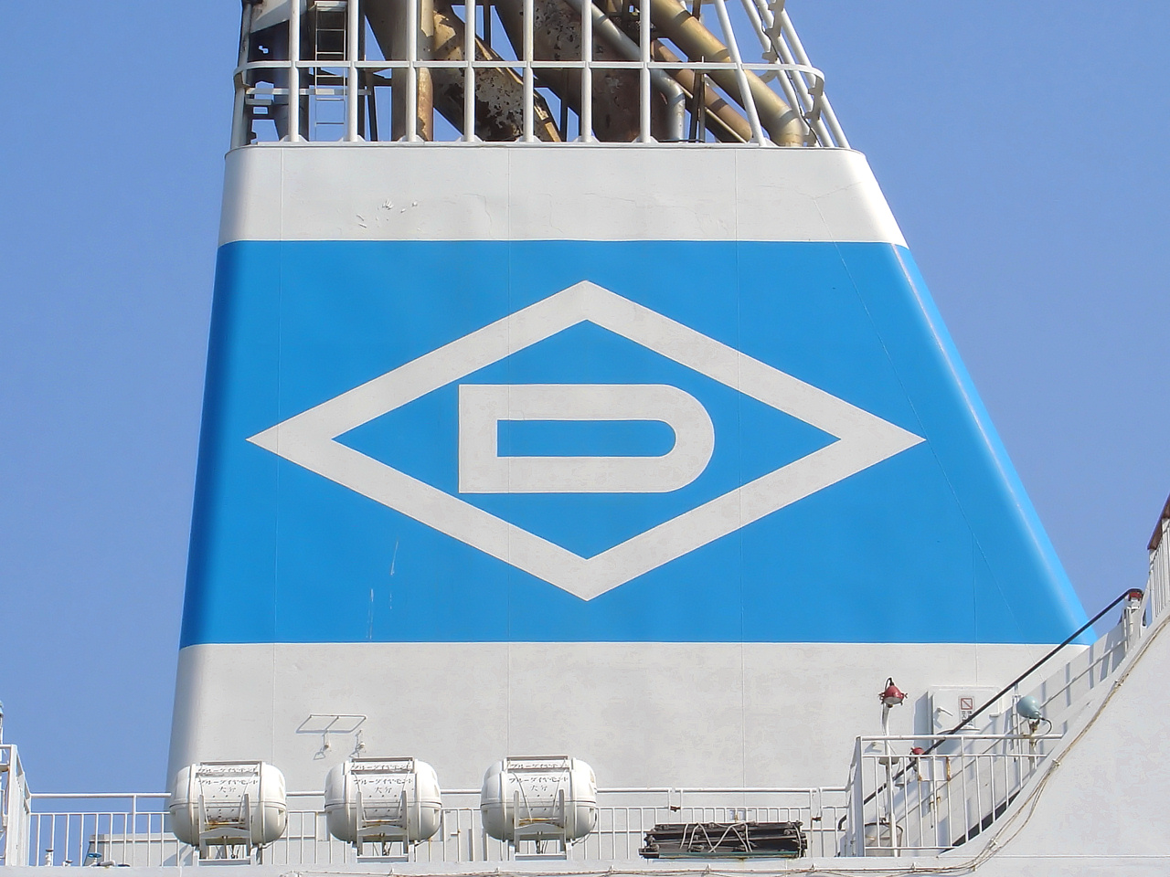 Diamond Ferry, Blue Diamond. Taken at Beppu Port(Beppu City, Oita Prefecture, Japan)